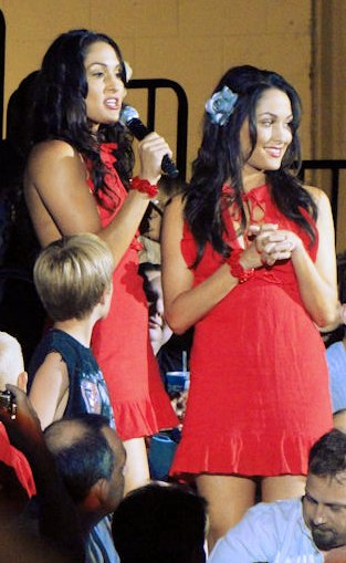 The Bella Twins (Nikki and Brie; real names Nicole and Brianna Garcia) at a Raw event in Dubuque, Iowa, on June 21, 2009.